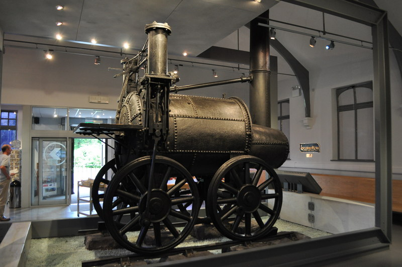 Sans Pareil, Data from Geograph: Description: The original Sans Pareil steam locomotive built by Timothy Hackworth which took part in the 1829 Rainhill Trials on the Liverpool and Manchester Railway. Now at Shildon. ICBM: 54.627076490481, -1.6415537437745 Location: (about 0 km from) near to Shildon, County Durham, Great Britain.